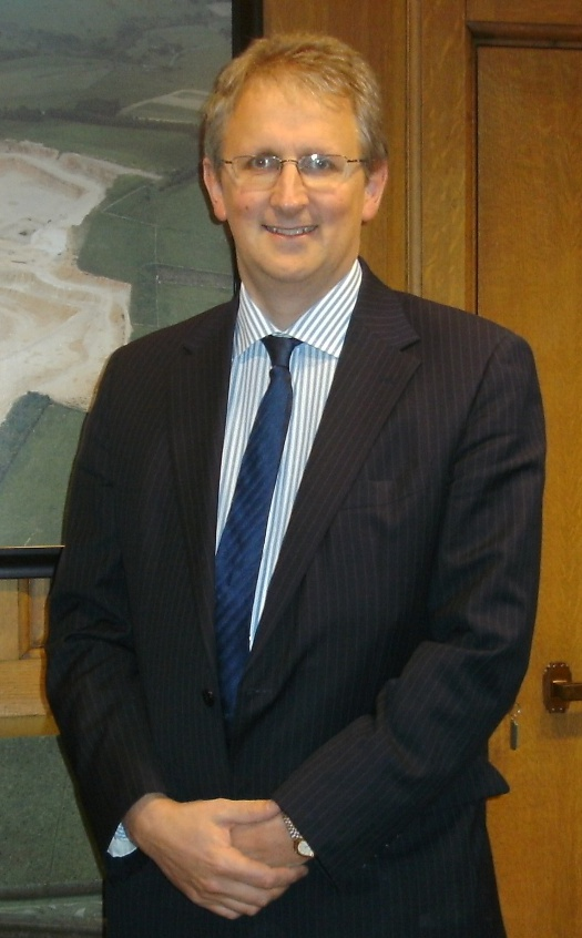 Andrew Bingham MP during a visit in his constituency in November 2010.